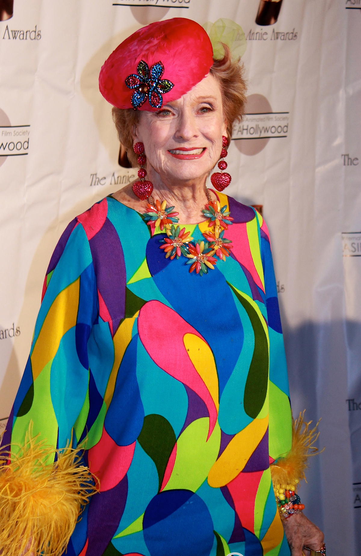 Cloris Leachman at the 41st Annual Annie Awards.